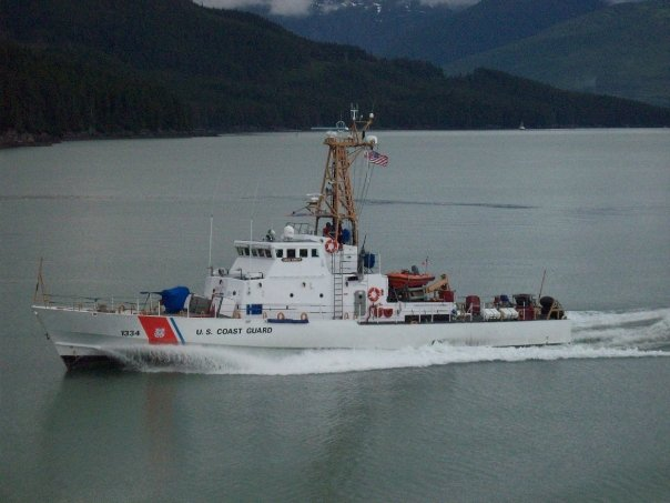 The USCGC Liberty sailing through the Inside Passage